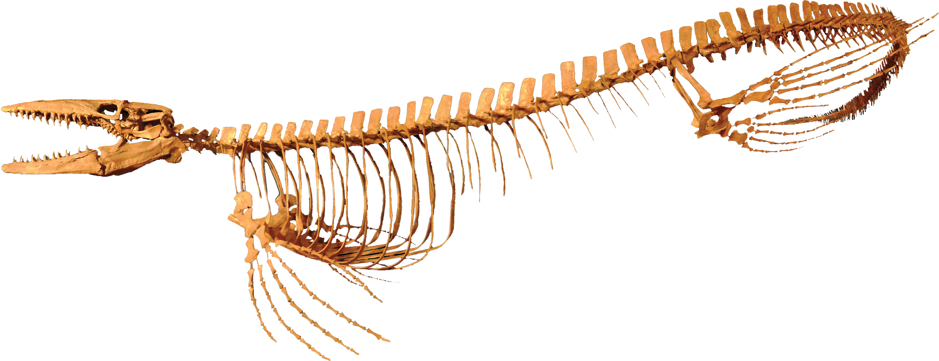 Tylosaurus kansasensis mounted skeleton in the Rocky Mountain Dinosaur Resource Center in Woodland Park, Colorado